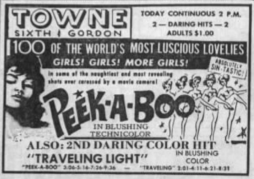 Towne Theater advertisement for a film titled Peek-a-Boo (unidentified as to date) and the British film Traveling Light (1959) - 15 Jan. 1964 Morning Call, Allentown PA